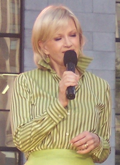 Cropped photo of Diane SawyerGMA News